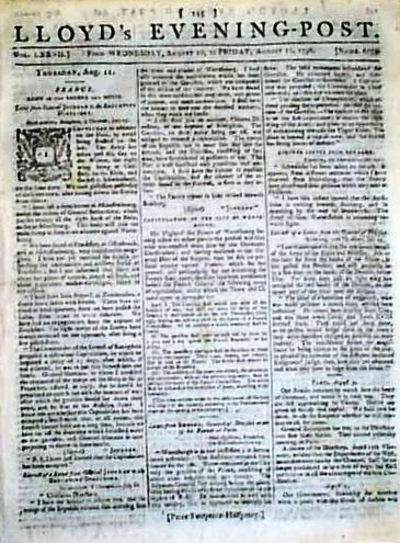 Front page of the London newspaper, Lloyd's Evening Post , 10 August 1796. The paper was founded in 1757 and published until 1808.